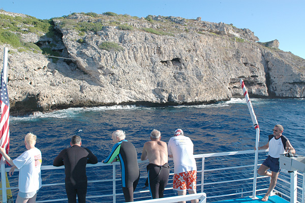 Island as seen from dive boat, Monito Island, Puerto Rico